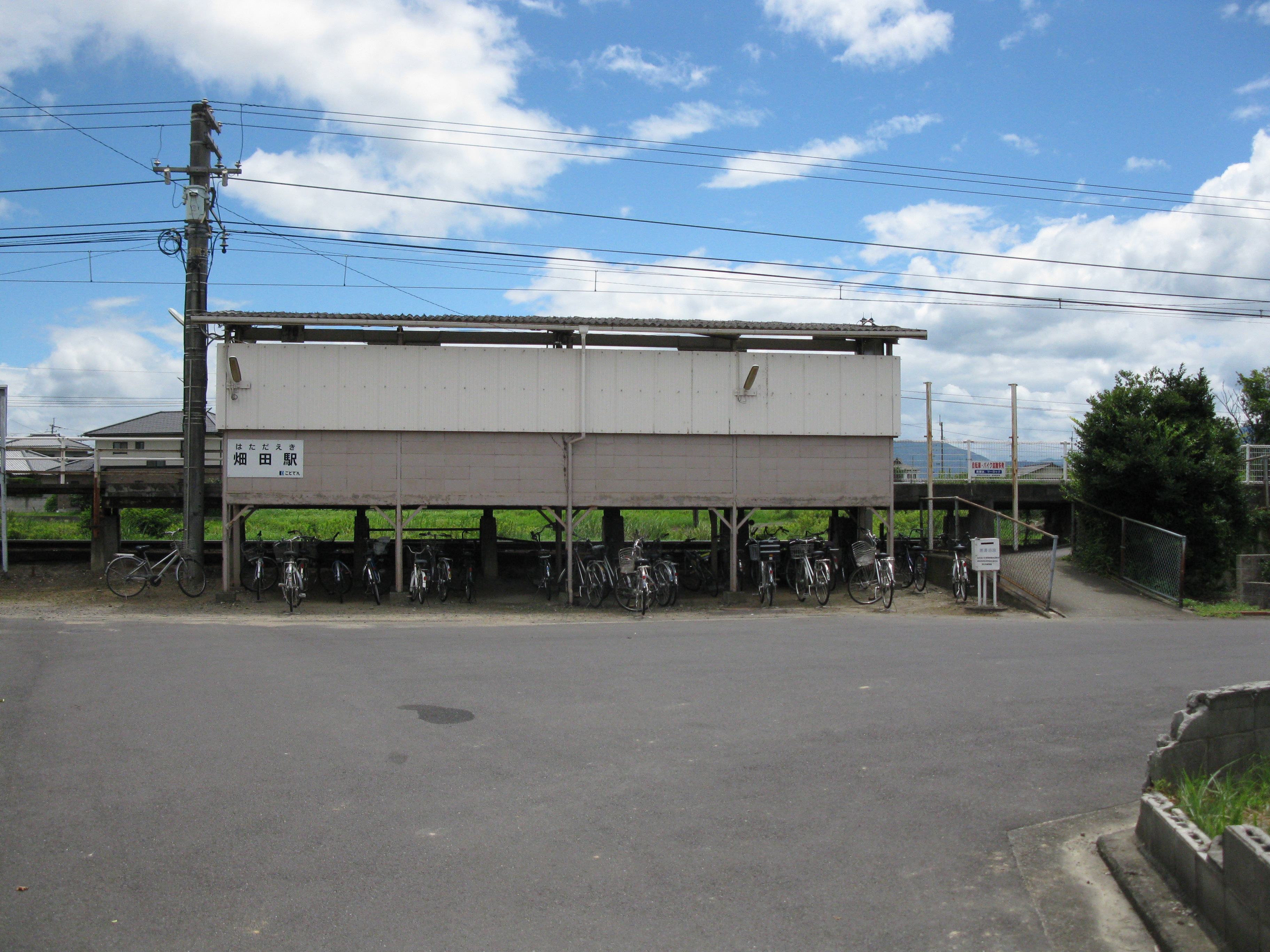 Hatada Station outside (Takamatsu-Kotohira Electric Railroad(Kotoden) Kotohira Line)